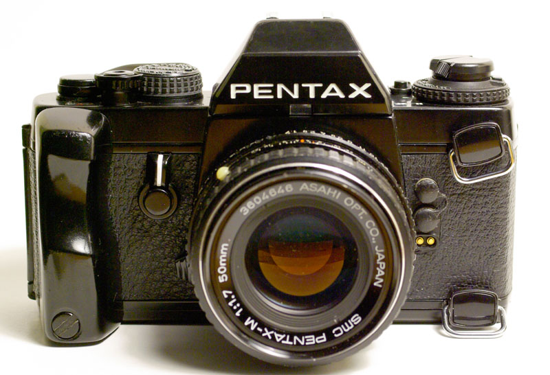 Pentax LX 35 mm film SLR camera with an SMC Pentax-M 1:1.7 50 mm lens